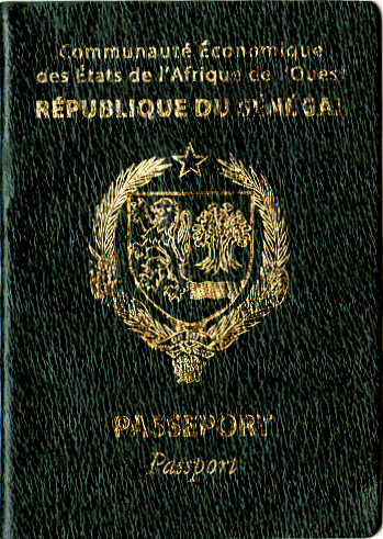 Cover of Senegalese passport